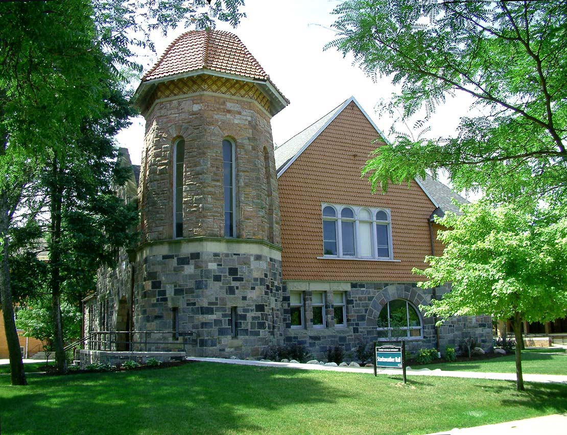 Starkweather Hall on the Eastern Michigan University campus, in Ypsilanti, Michigan